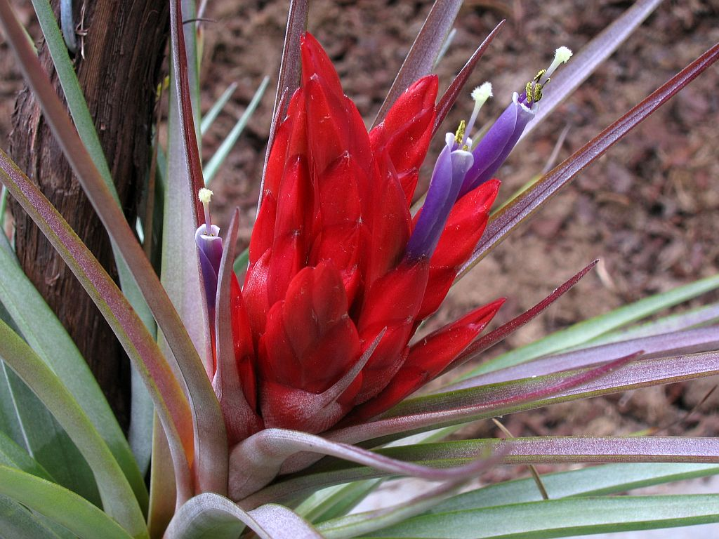 Tillandsia fasciculata var. densispica in cultivation at the Botanical Garden of Heidelberg, Germany.